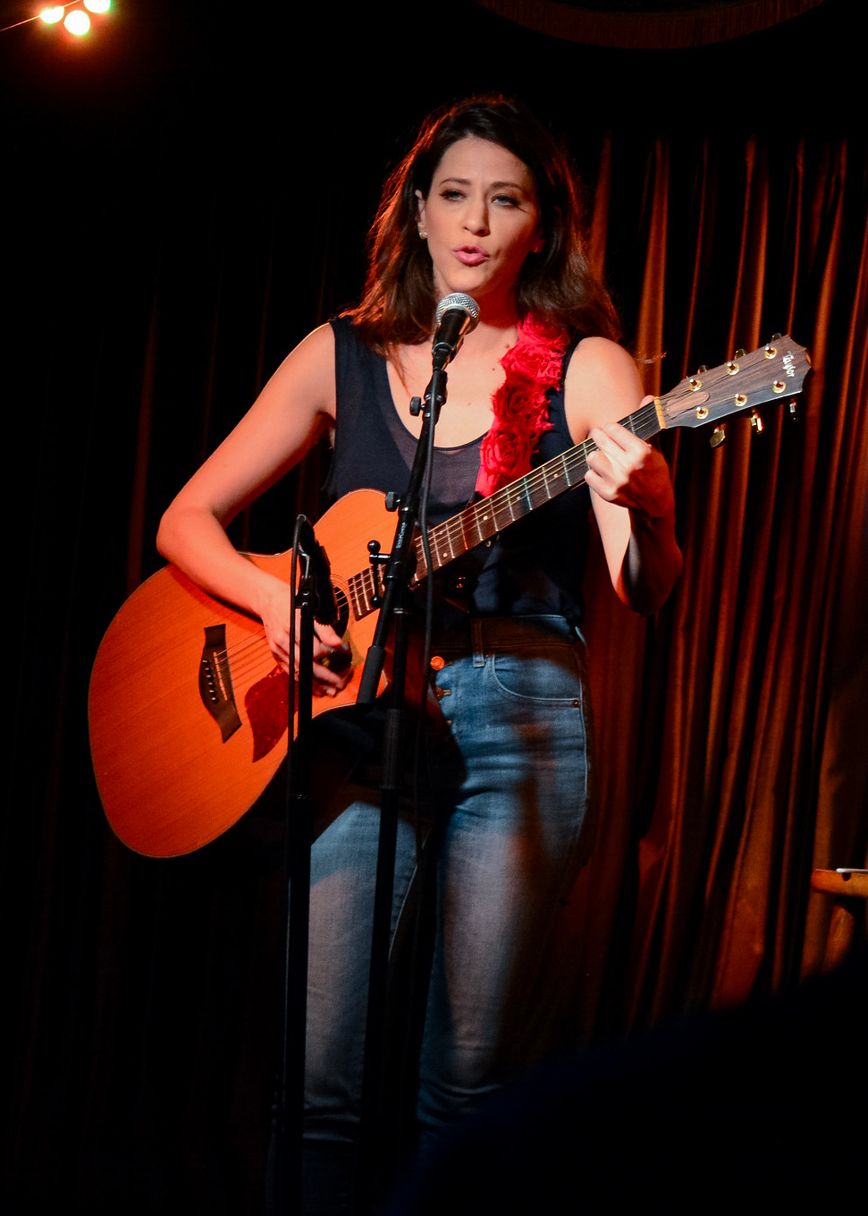 Jackie Tohn in August 2018 at The Virgil in Los Angeles